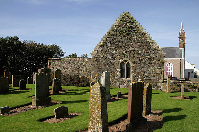 Ballantrae Parish Churchyard This is an old area of the churchyard with the Kennedy Mausoleum a prominent feature. The mausoleum was formerly an aisle built against the south wall of an earlier church on this site. The present parish church with clock tower is in the background.